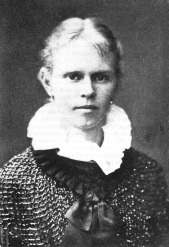 Photograph of the actress Siri von Essen from 1880.